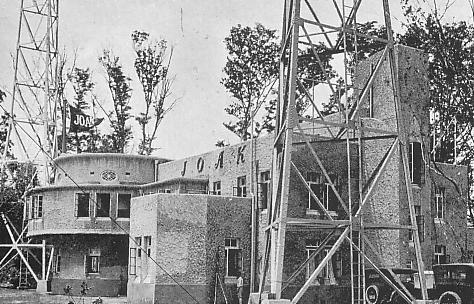 JOAK(Tokyo Broadcasting Station, present-day "NHK Broadcasting Center")